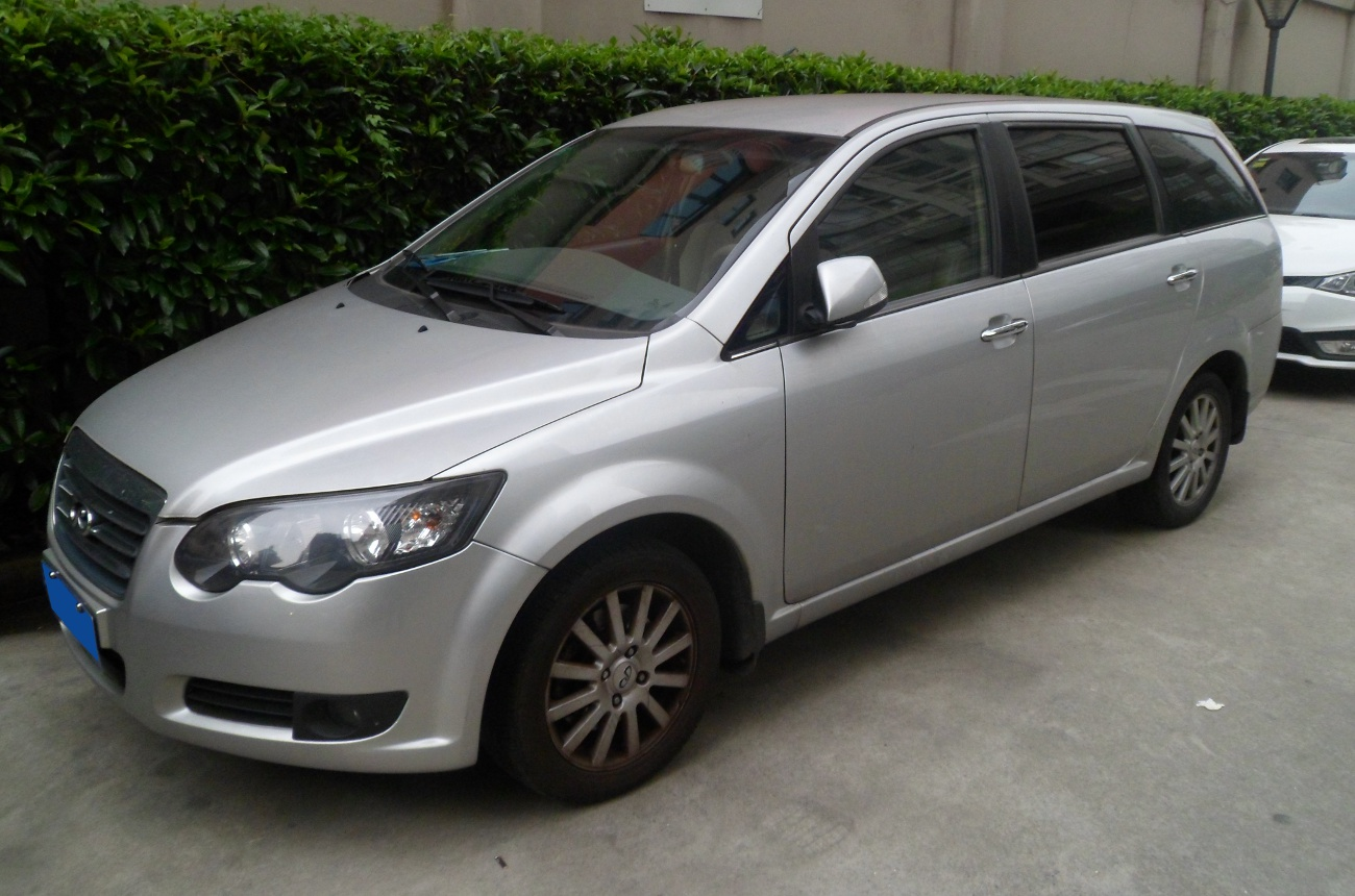 Rely V5 photographed in Shanghai, China.